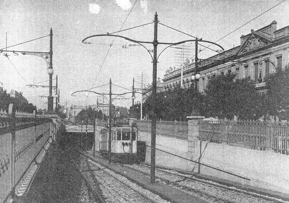 A train of Buenos Aires Underground's Line A, leaving Primera Junta station.